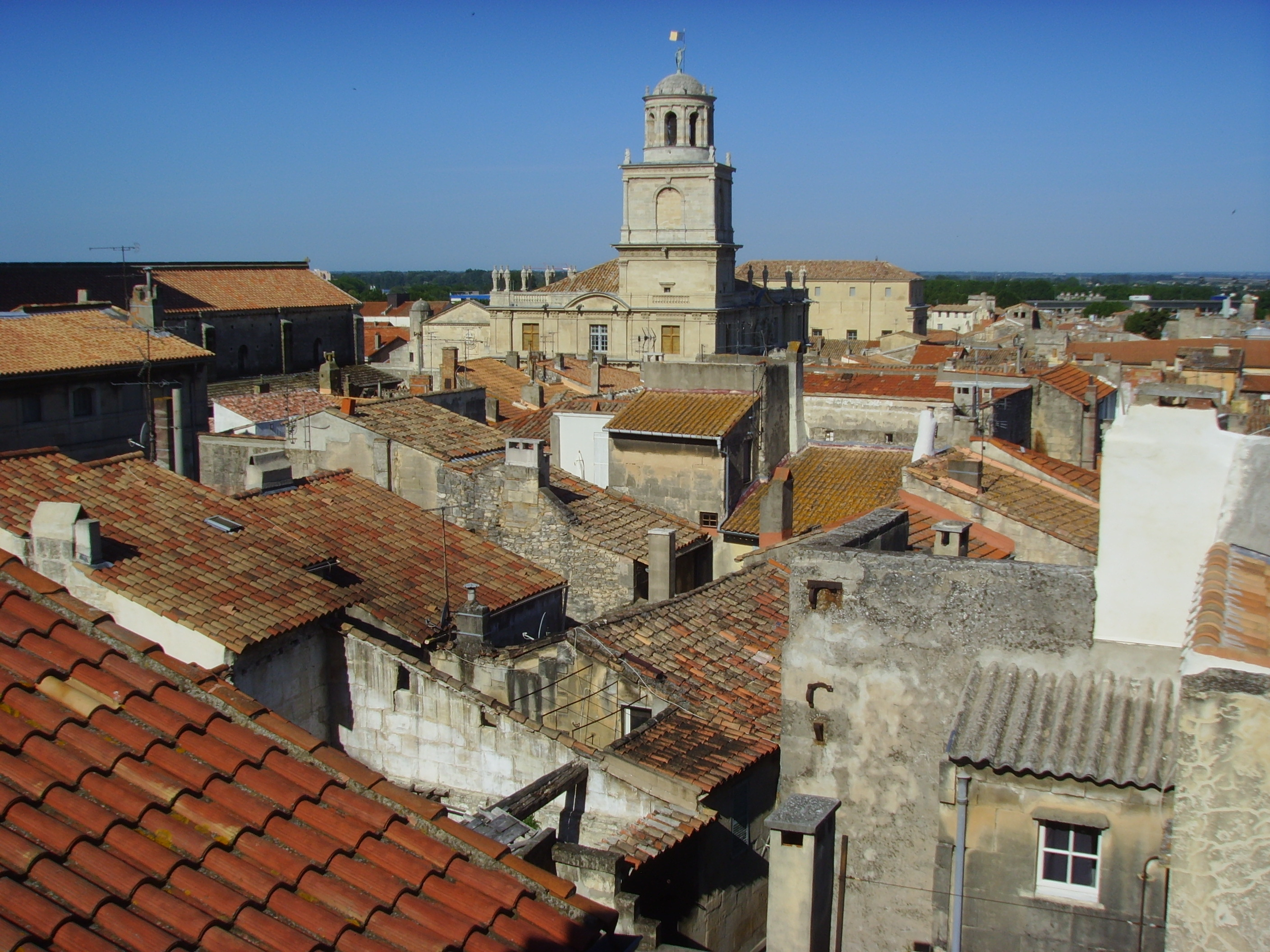 Roofs od Arles